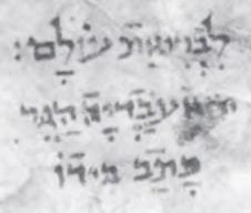 Cairo Geniza - Obadiah the Proselyte, Document I - colophon of a prayer-book (HUC fragment 8) text2: "he, Obadiah the Proselyte, has written [this prayer-book] with his own hand"